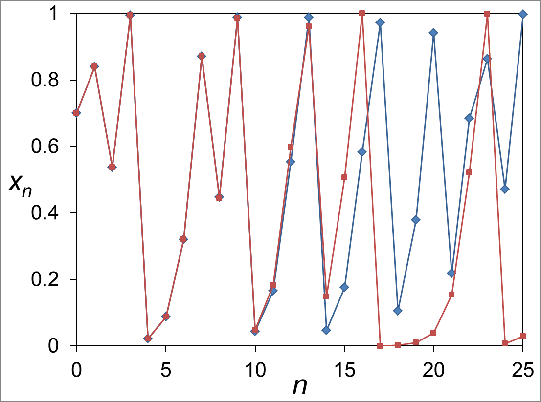 example of sensitive to initial conditions in the two time evolution of logistic map, parameter a is 4, red line's initial vale x0 is 0.7, blue line's is 0.7+0.00001, discrete time n is from 0 to 25.